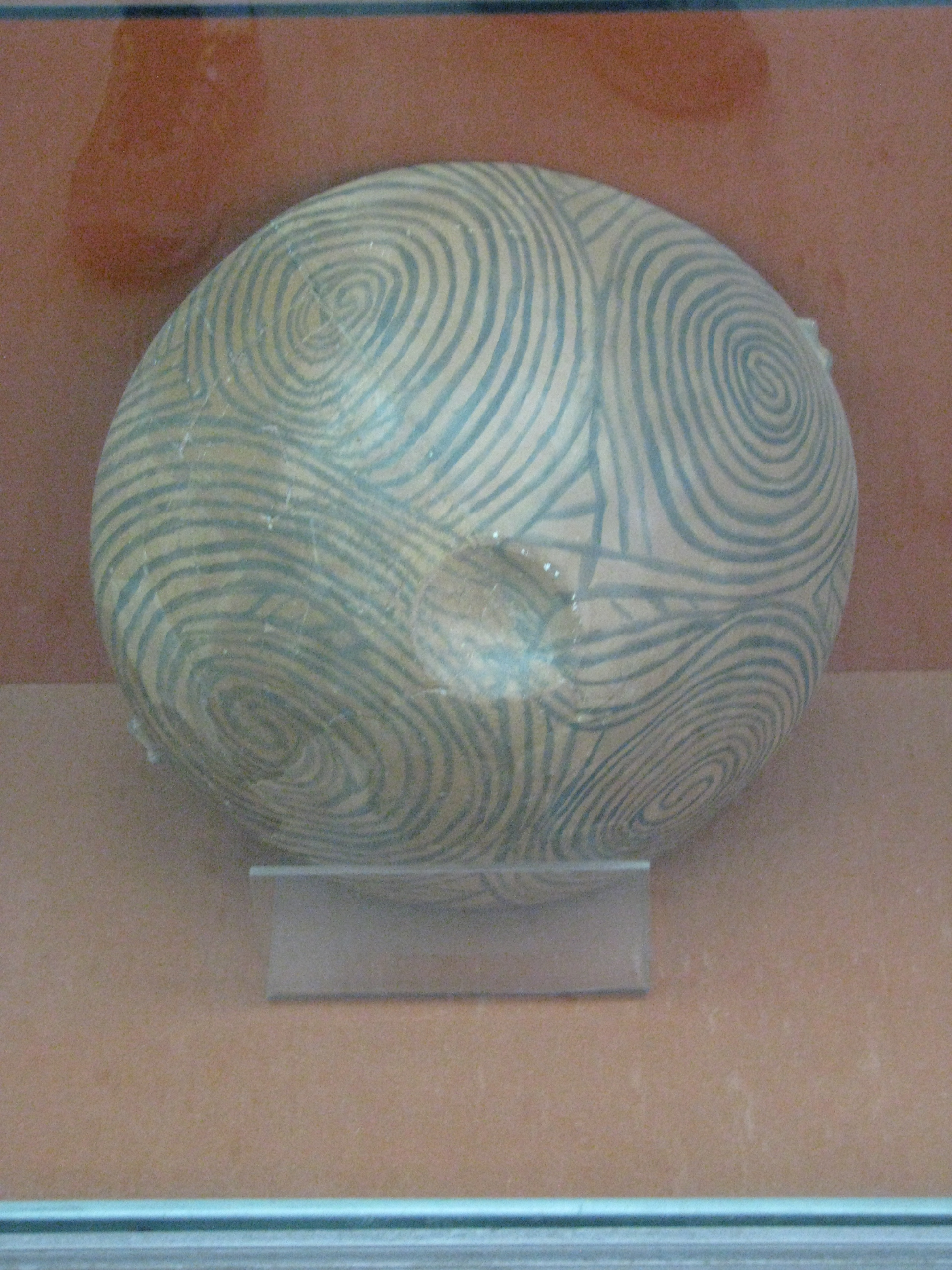 Alba Iulia National Museum of the Union 2011